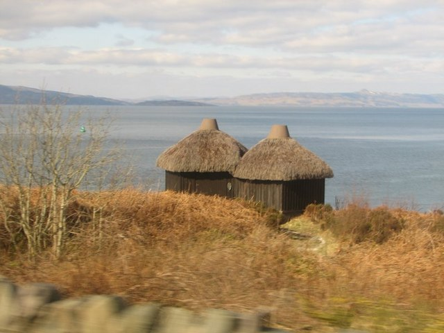 Otter and bird watching hides on Eilean Ban Snapped from the bus on the way to the mainland from the Isle of Skye.